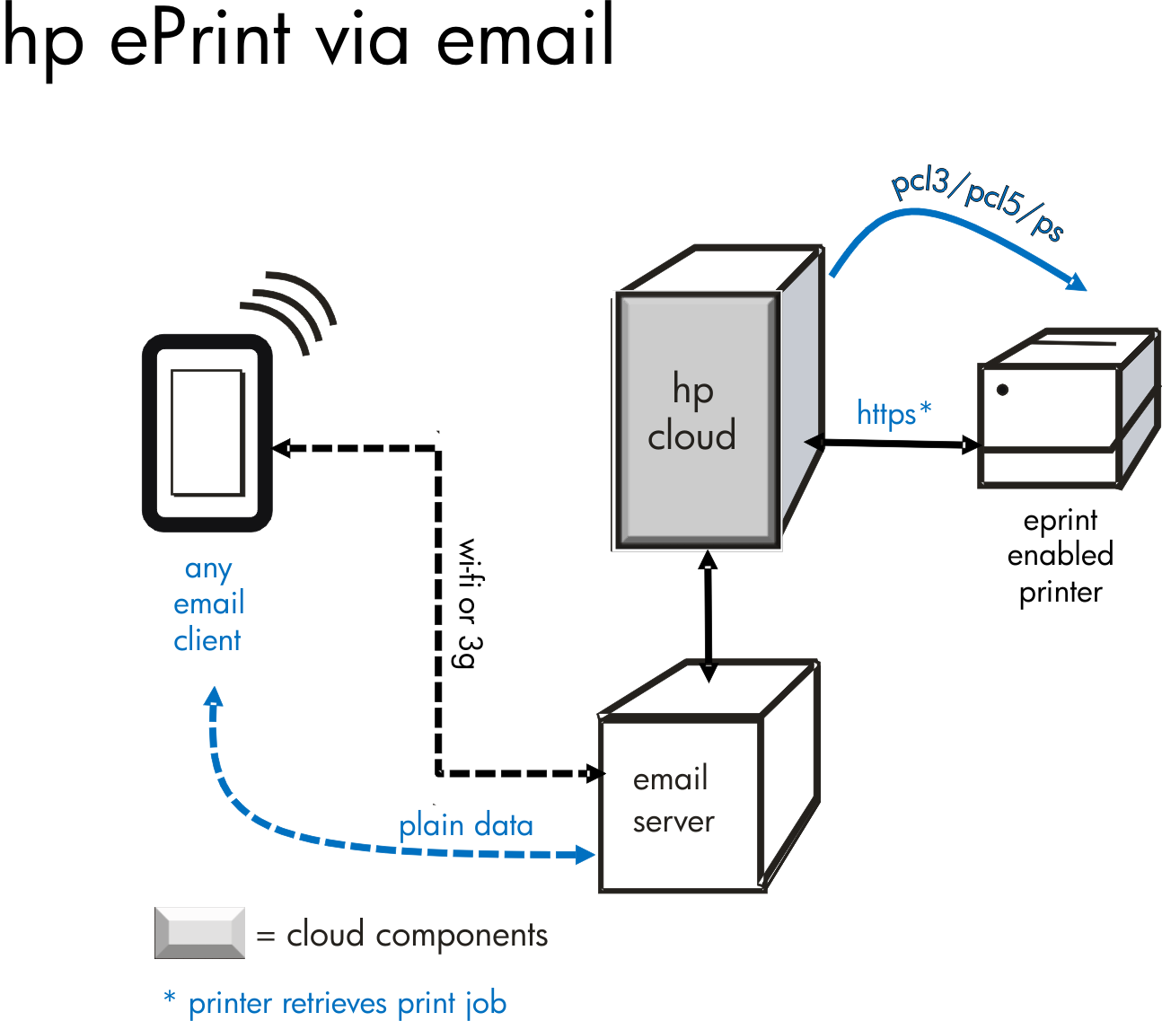 HP ePrint data flowchart.